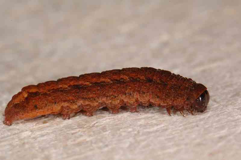 Charanyca ferruginea, larva. Location: The Netherlands - Nationaal Park de Meinweg.